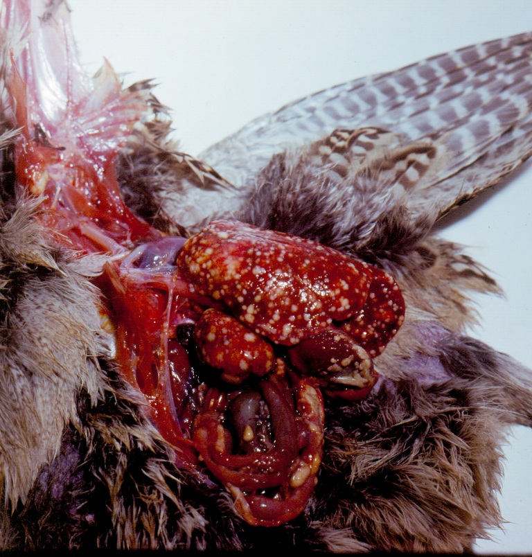 avian tuberculosis (spleen, liver, intestines) - pheasant